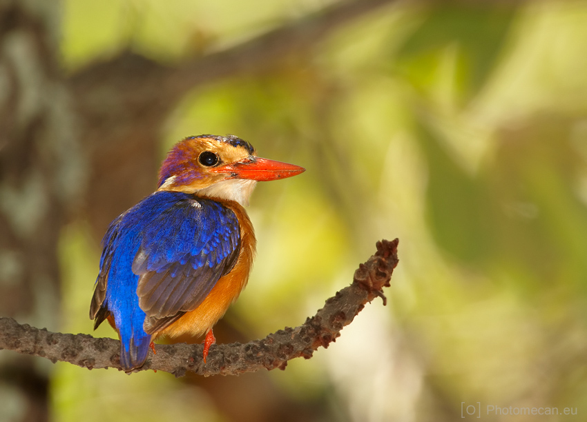 Ispidina picta, Entabeni, South Africa